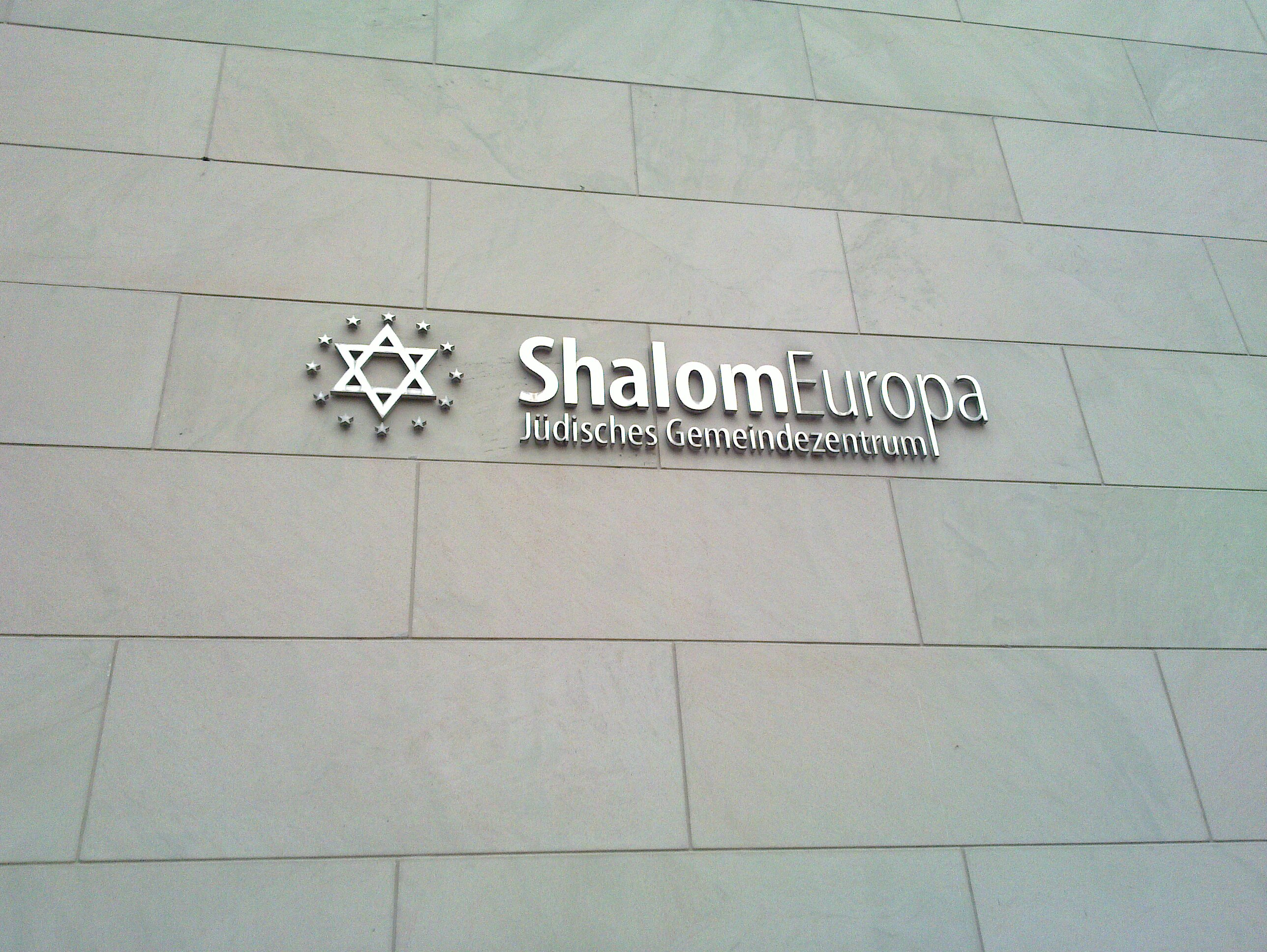 Shalom Europe Jewish community in Würzburg